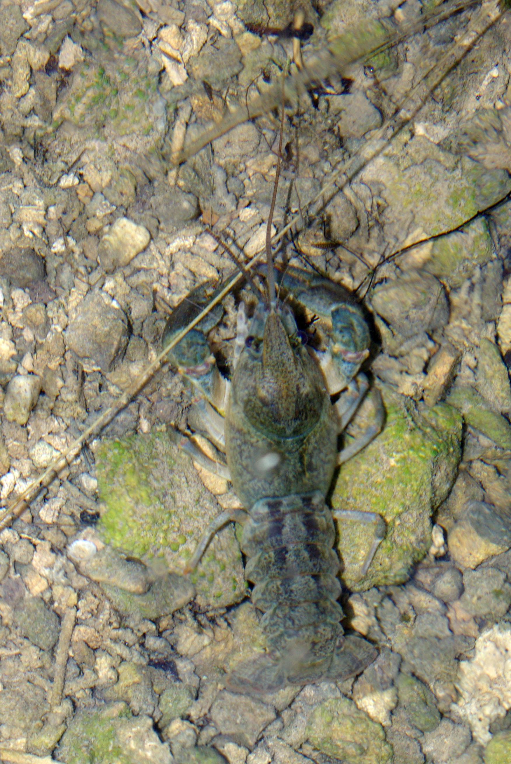 White-clawed Crayfish (Austropotamobius pallipes) somewhere around Castile and Leon (Spain)